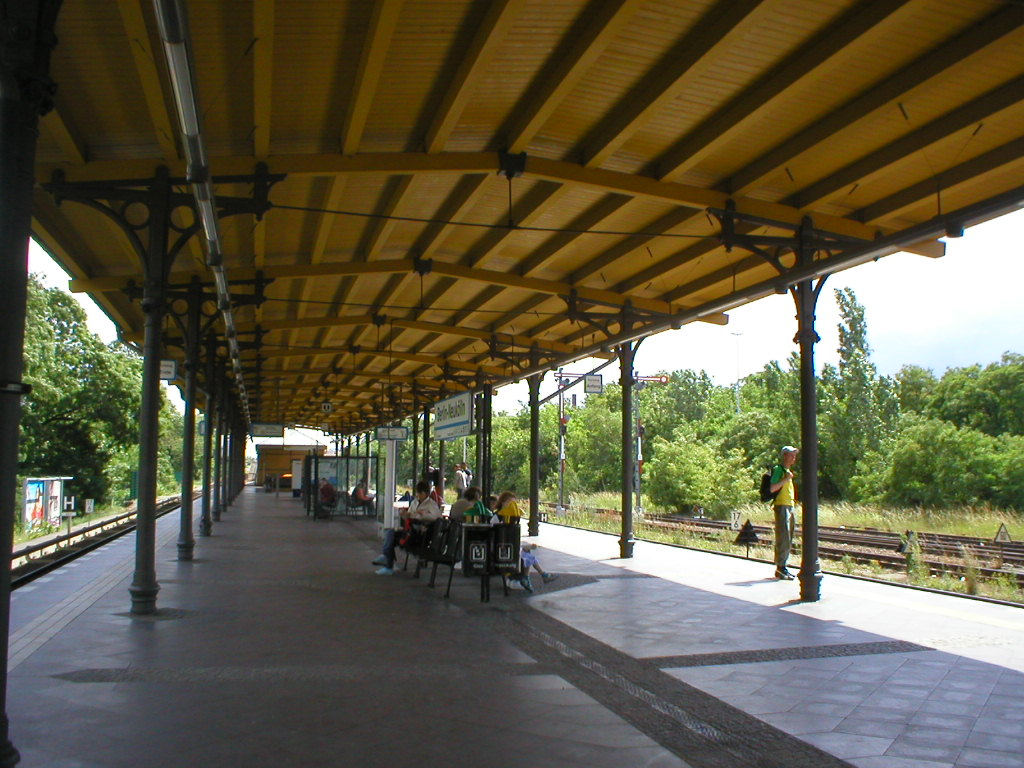 Platform of the Berlin S-Bahn station Neukölln, circle line